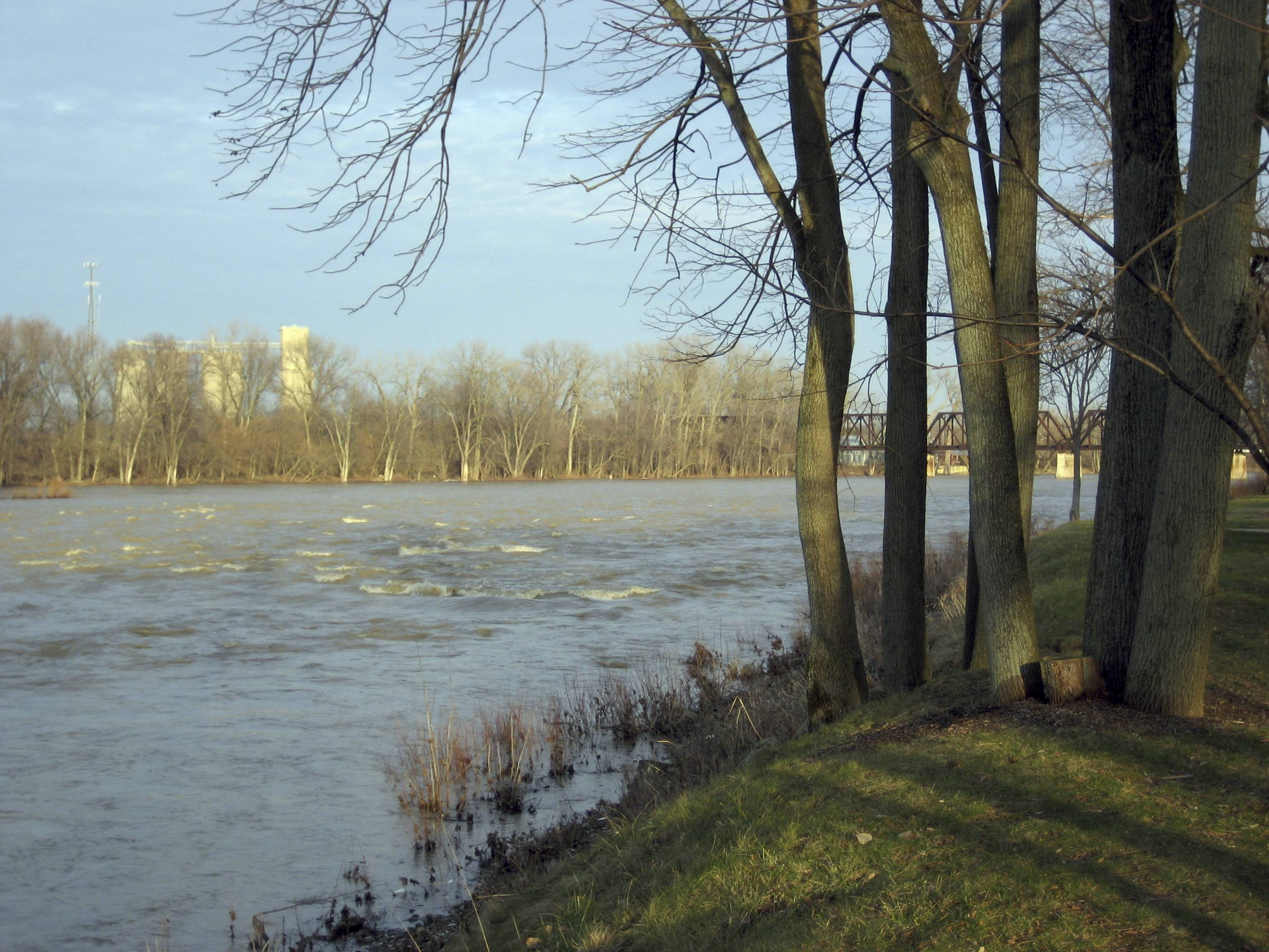 J.D. Zollars